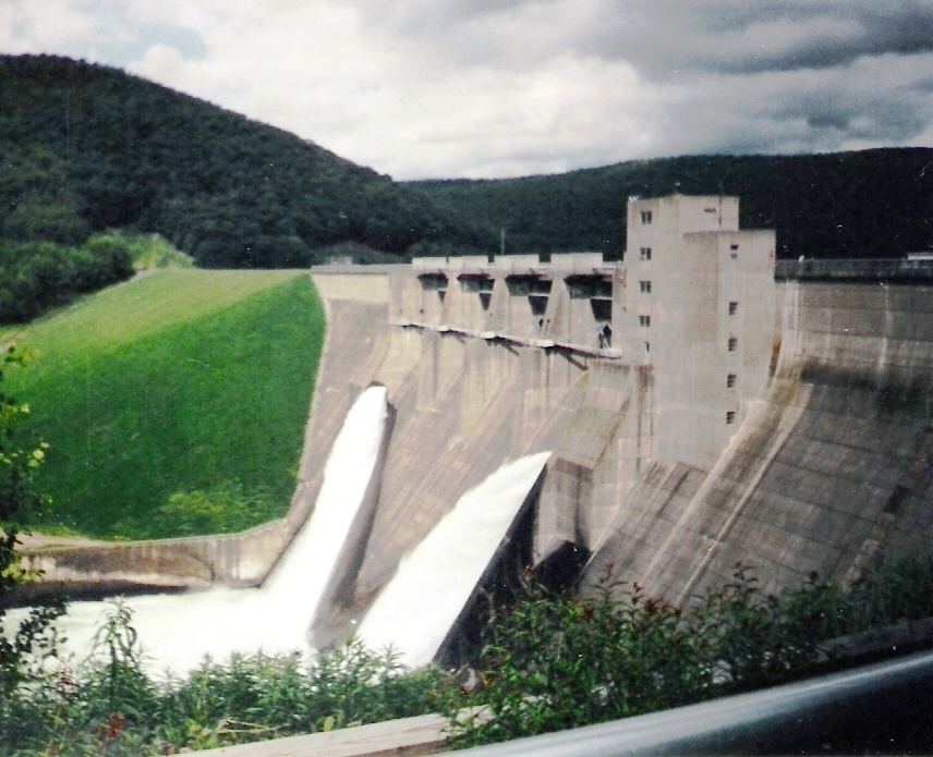 Kinzua Dam, Allegheny National Forest, Pennsylvania, United States